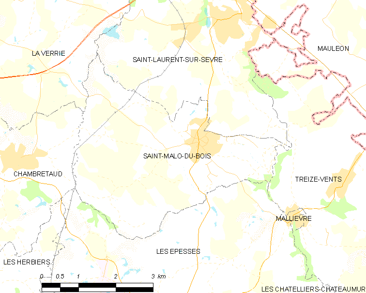 Map of French municipality Saint-Malô-du-Bois